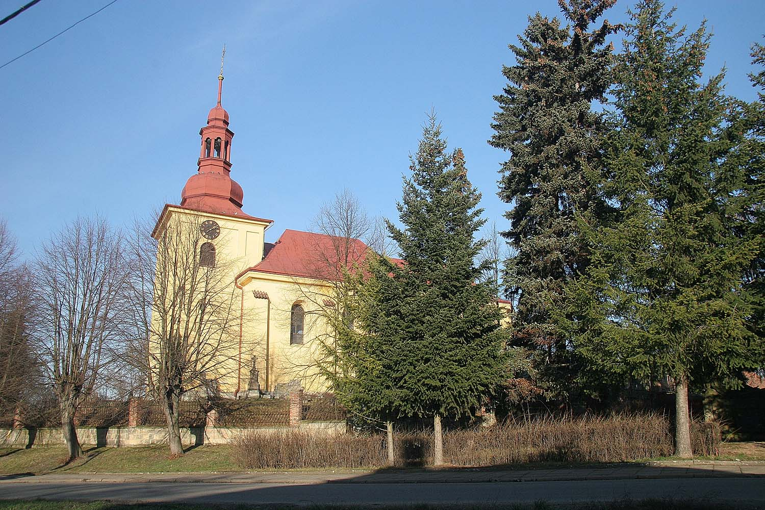 St Adalbert of Prague church in Běchary, Jičín District, Czech Republic autor:Prazak date: 15. 1. 2007